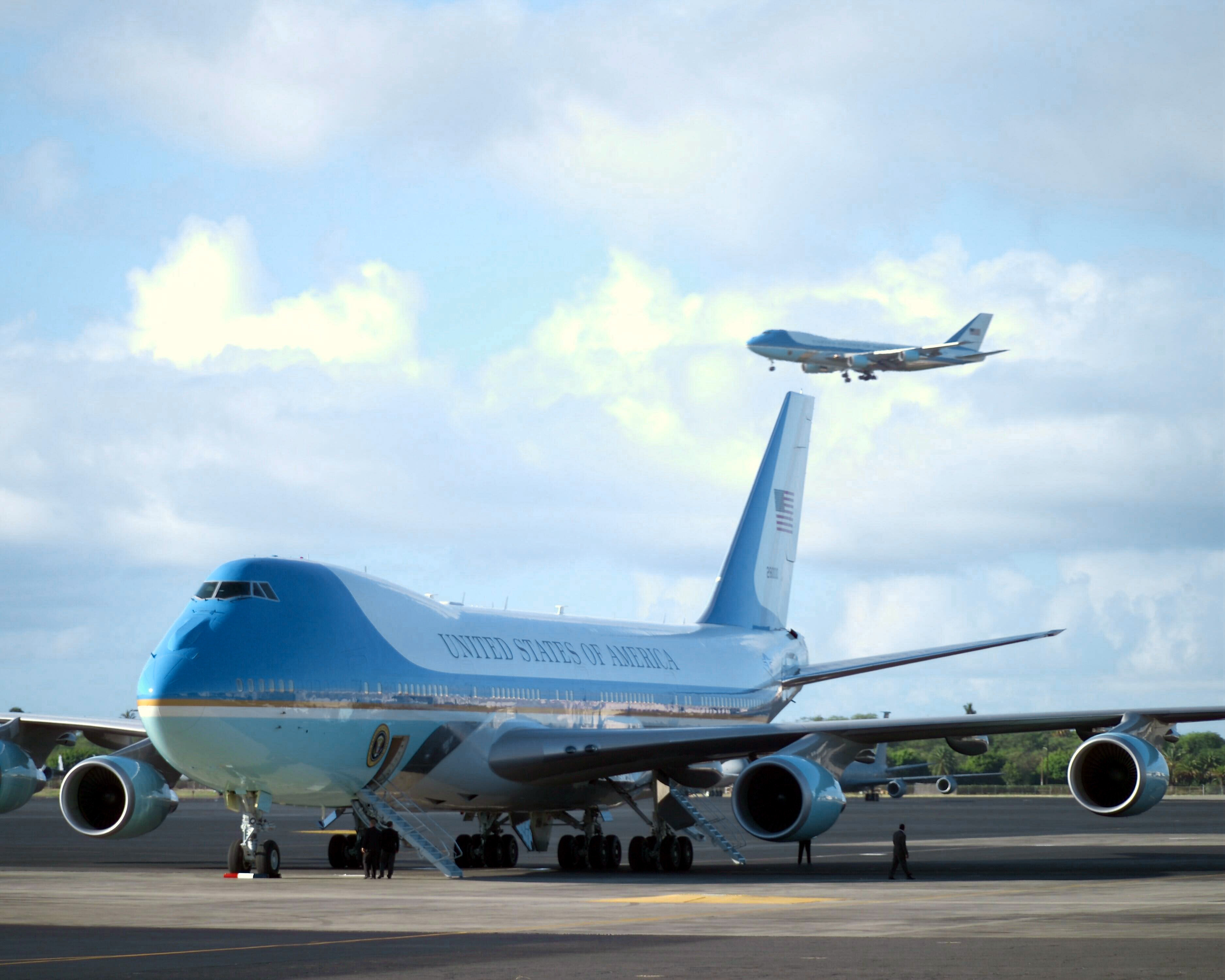 Air Force One lands at Hickam Air Force (AFB) with US President George W. Bush on board for his first visit to Hawaii while holding office. On the ground, the second Boeing VC-25A.